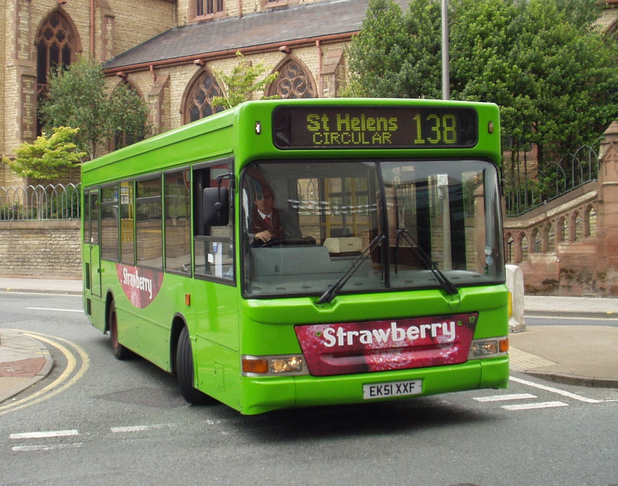 Dennis Dart MPD / Plaxton Pointer EK51 XXF, new to Bus Éireann, now operated by Strawberry, pictured in St Helens